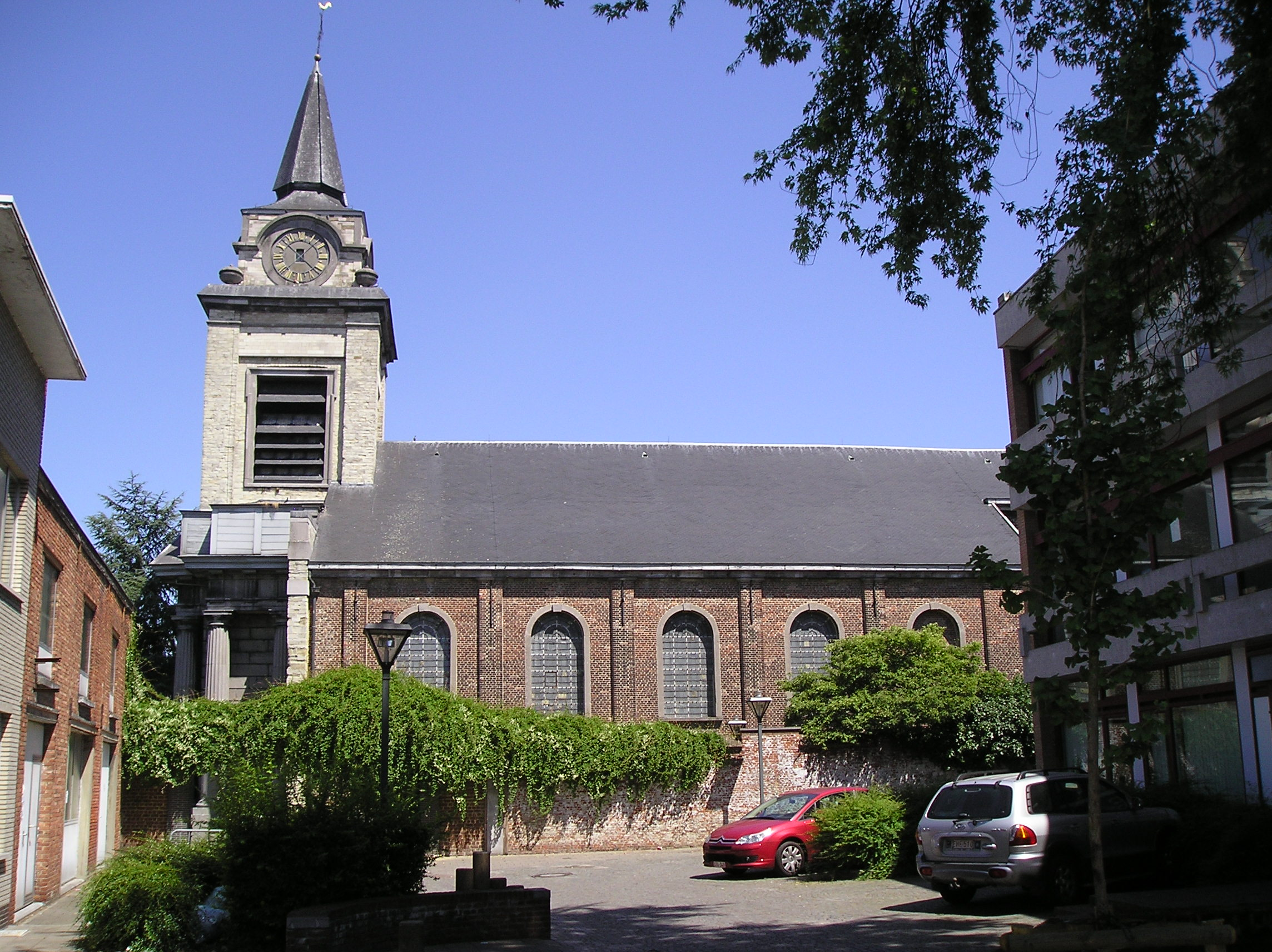 The church of Aalst béguinage.